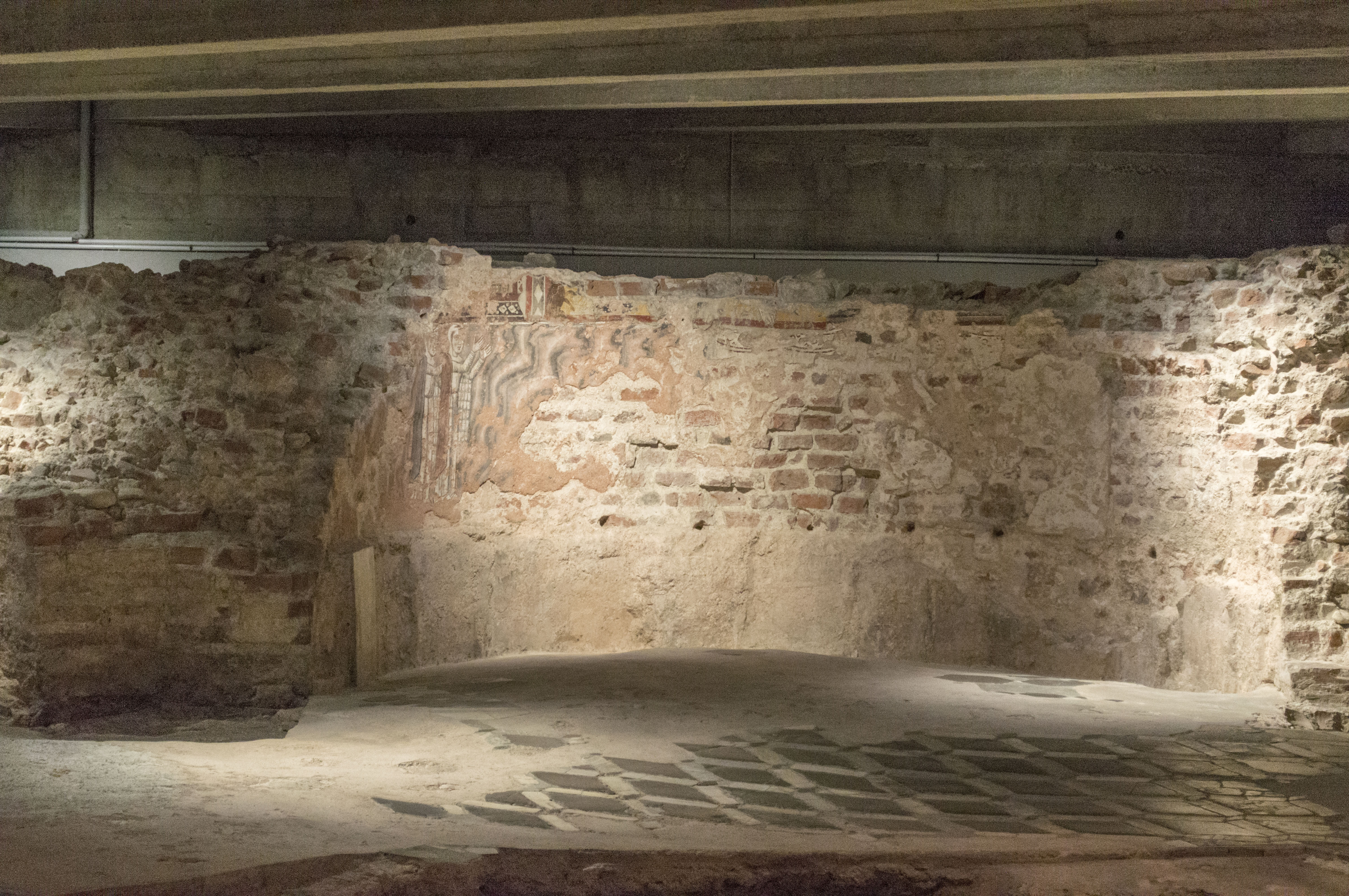 Study trip of students of art history in Brno with doc. Ivan Foletti to Milan and surroundings.